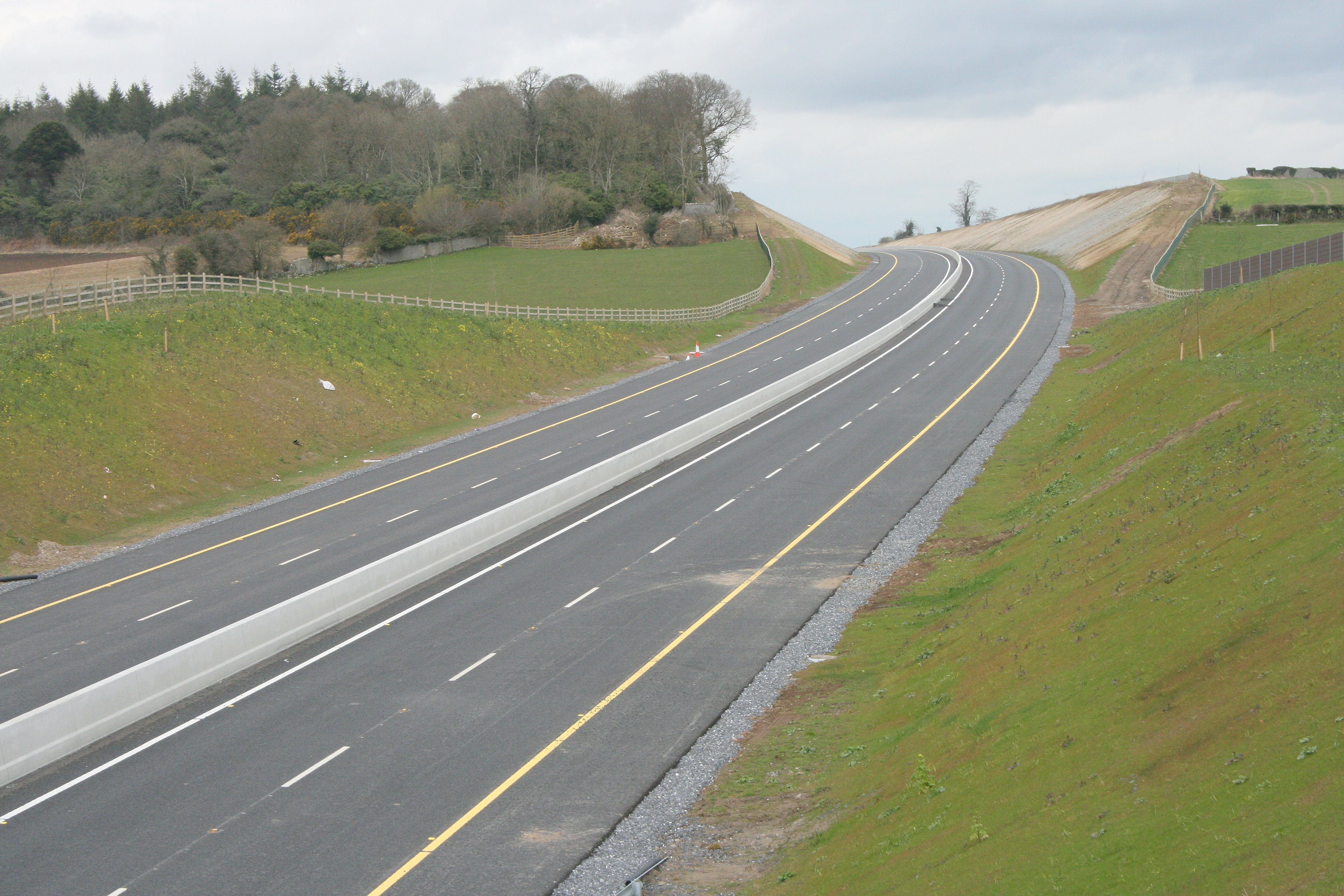 The M9 Carlow bypass just before it opened. Ireland.